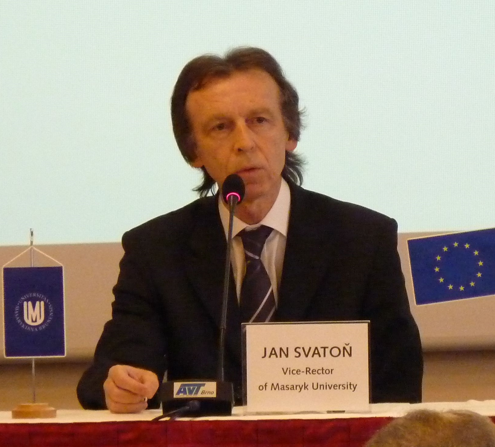 Jan Svatoň. Universal Learning Design Conference, Brno, Czech Republic